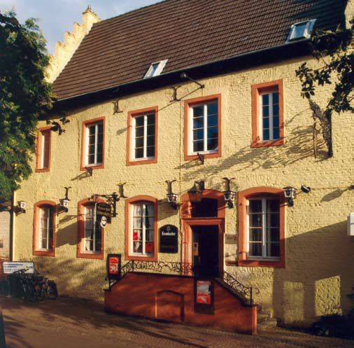 Das Haus auf der Hauptstraße 71 in Bergheim This is a photograph of an architectural monument.